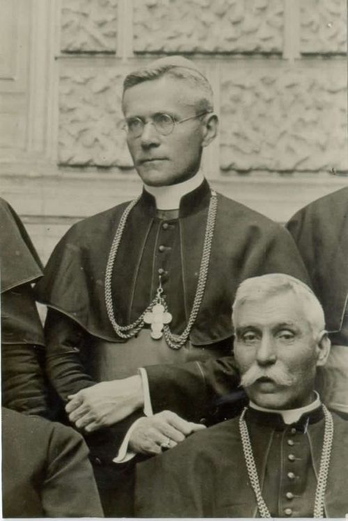 Josip Srebrnič (1876-1966), Slovene historian and priest bishop from krk (veglia), croatia.